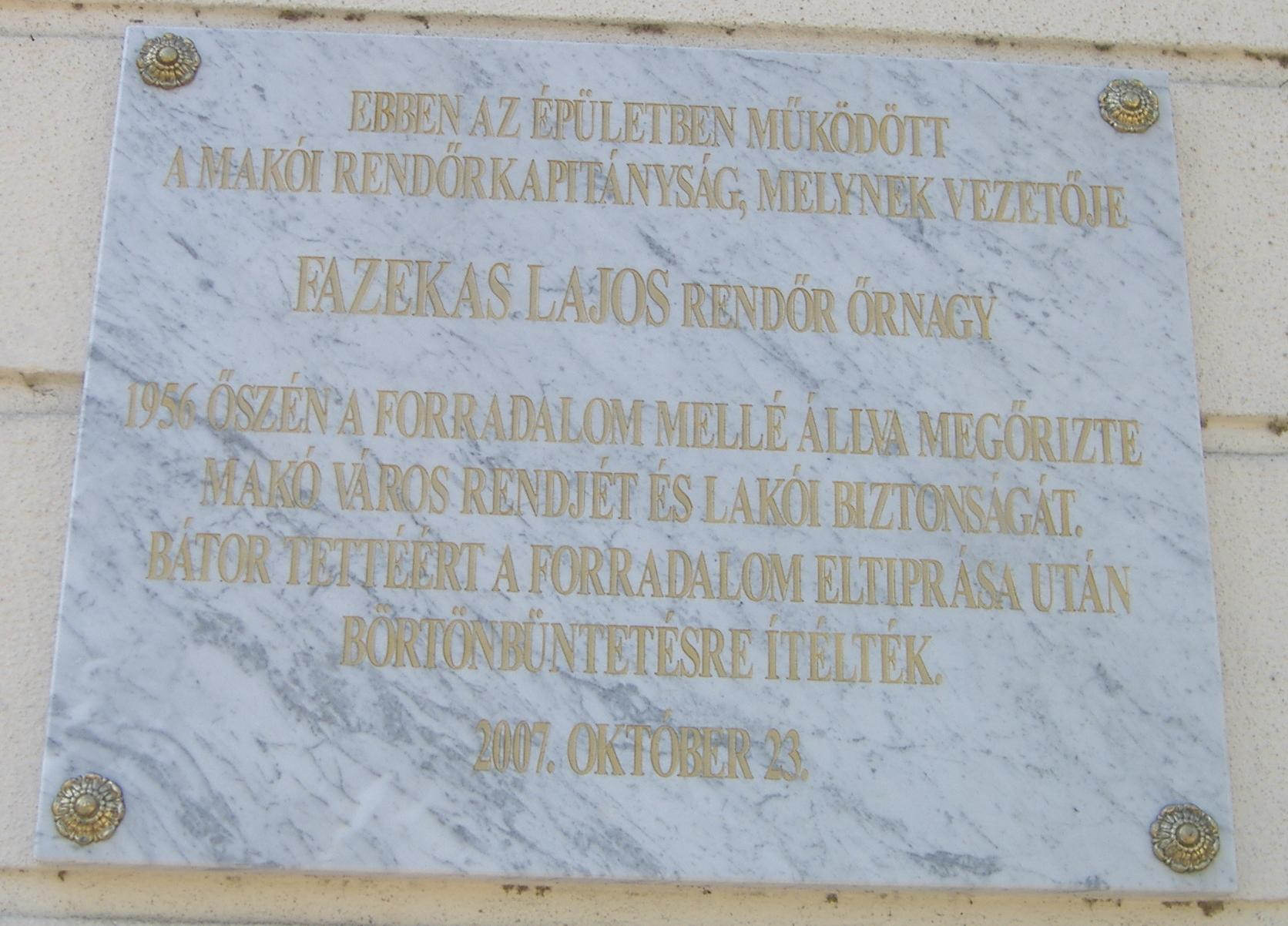 Memorial tablet of Lajos Fazekas, police superintendent, hero of the 1956 revolution in Makó, Hungary.